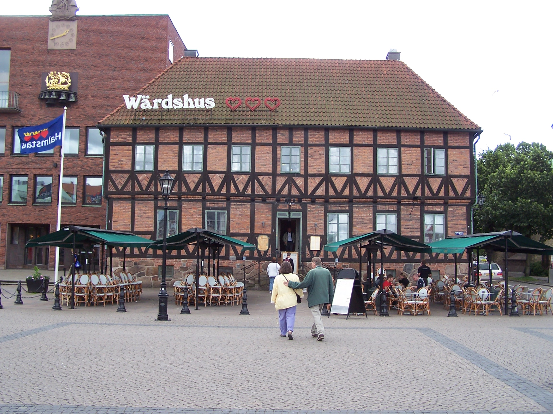 Wärdshuset Tre Hjärtan (restaurant Three Heart) in Halmstad